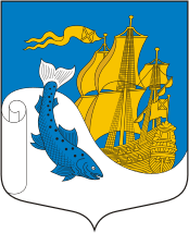 Sjasstroy coat of arms.